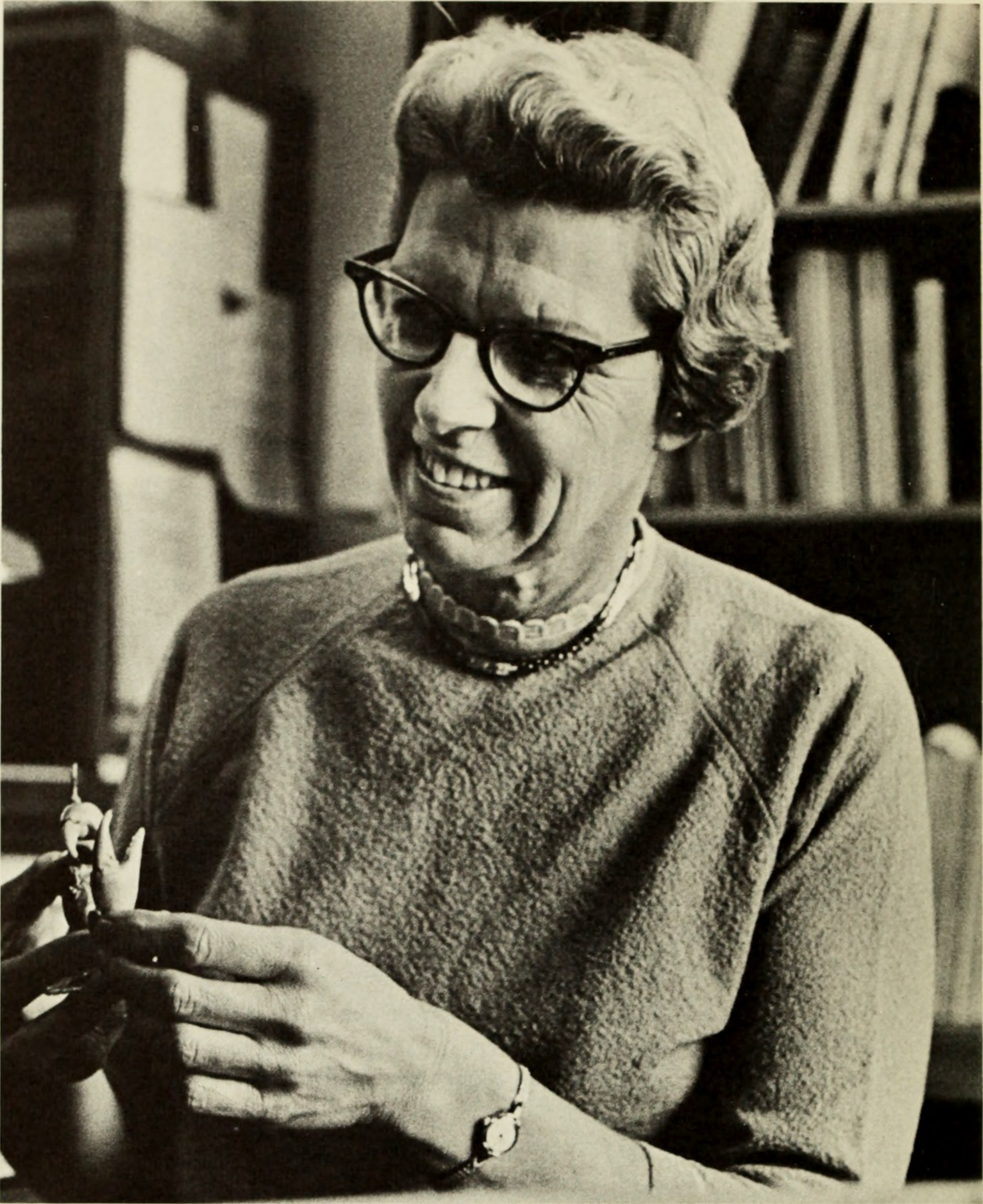 Dorothy E. Bliss Curator, curator of the Department of Living Invertebrates, American Museum of Natural History, examines a crab